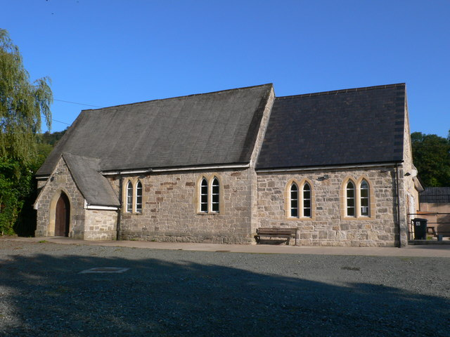 Rhydycroesau Village Hall The main part of the building is dated 1850.